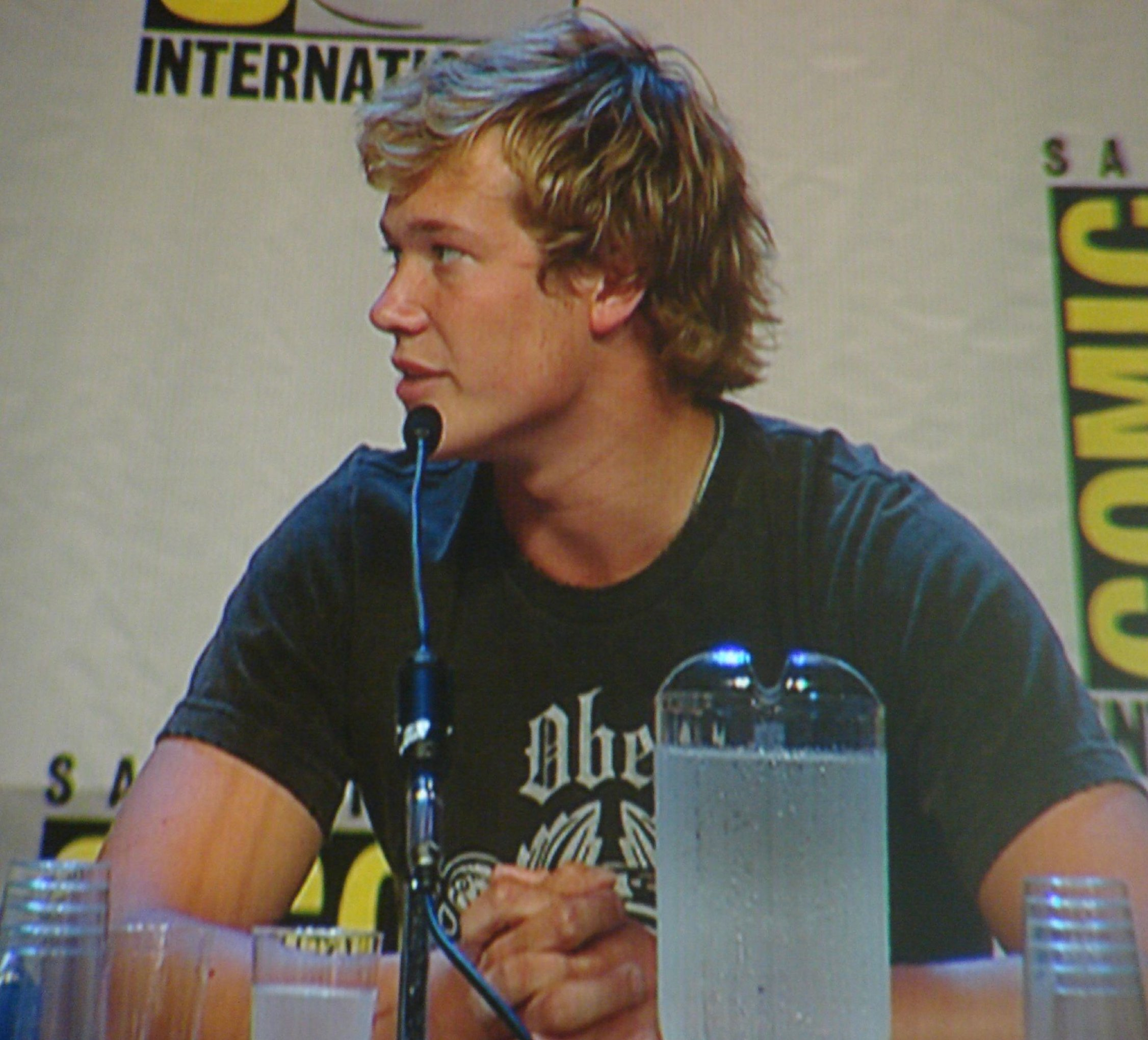 Ed Speleers at 2006 San Diego Comic-Con promoting Eragon